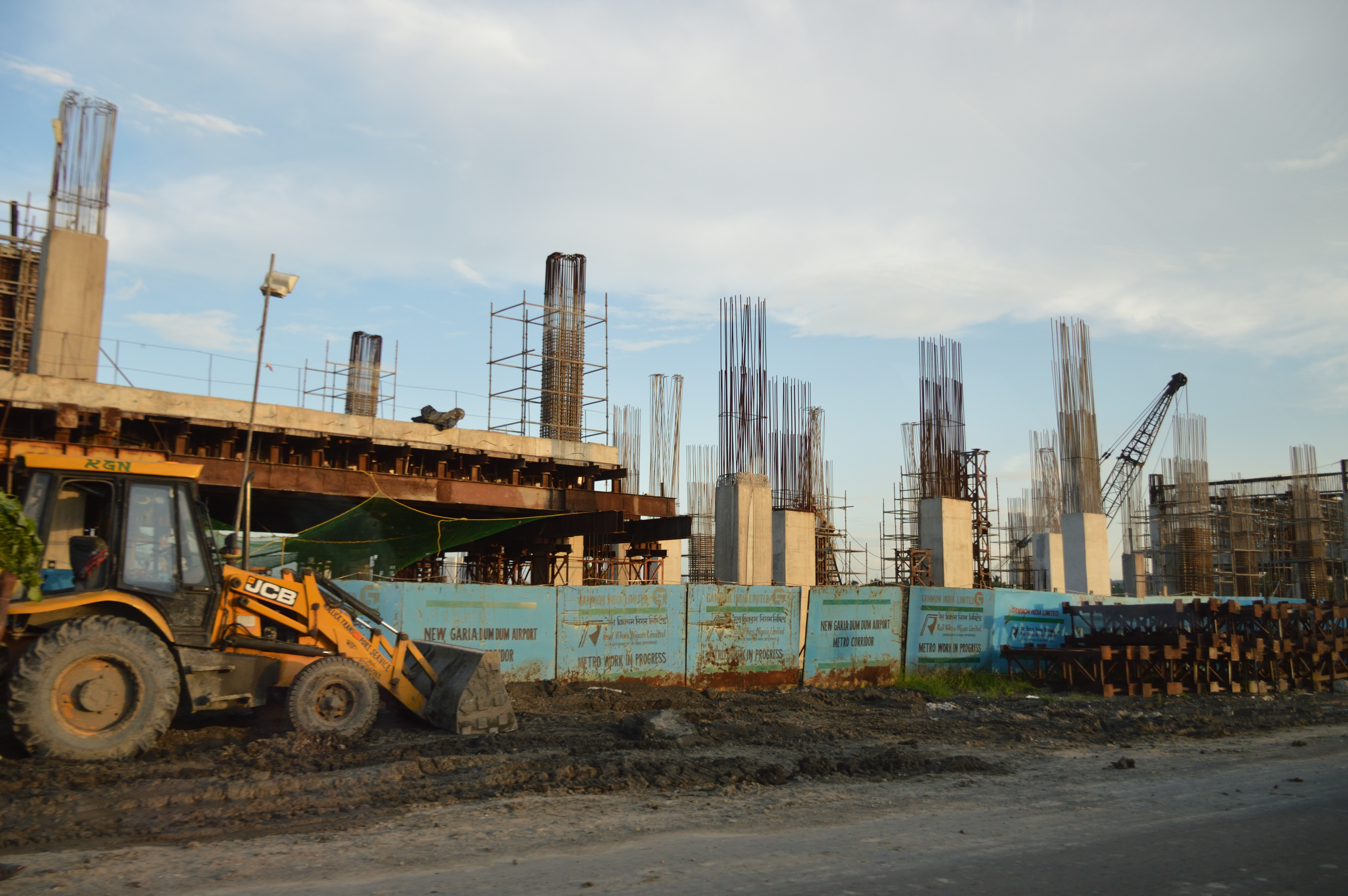 This photograph was taken in Kolkata.